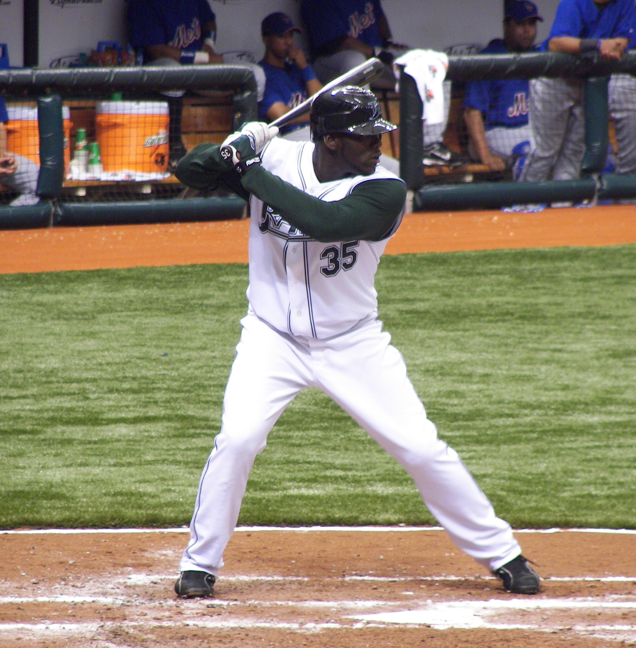 Tampa Bay Devil Rays outfielder Elijah Dukes during a Devil Rays/Mets spring training game at Tropicana Field in St. Petersburg, Florida.